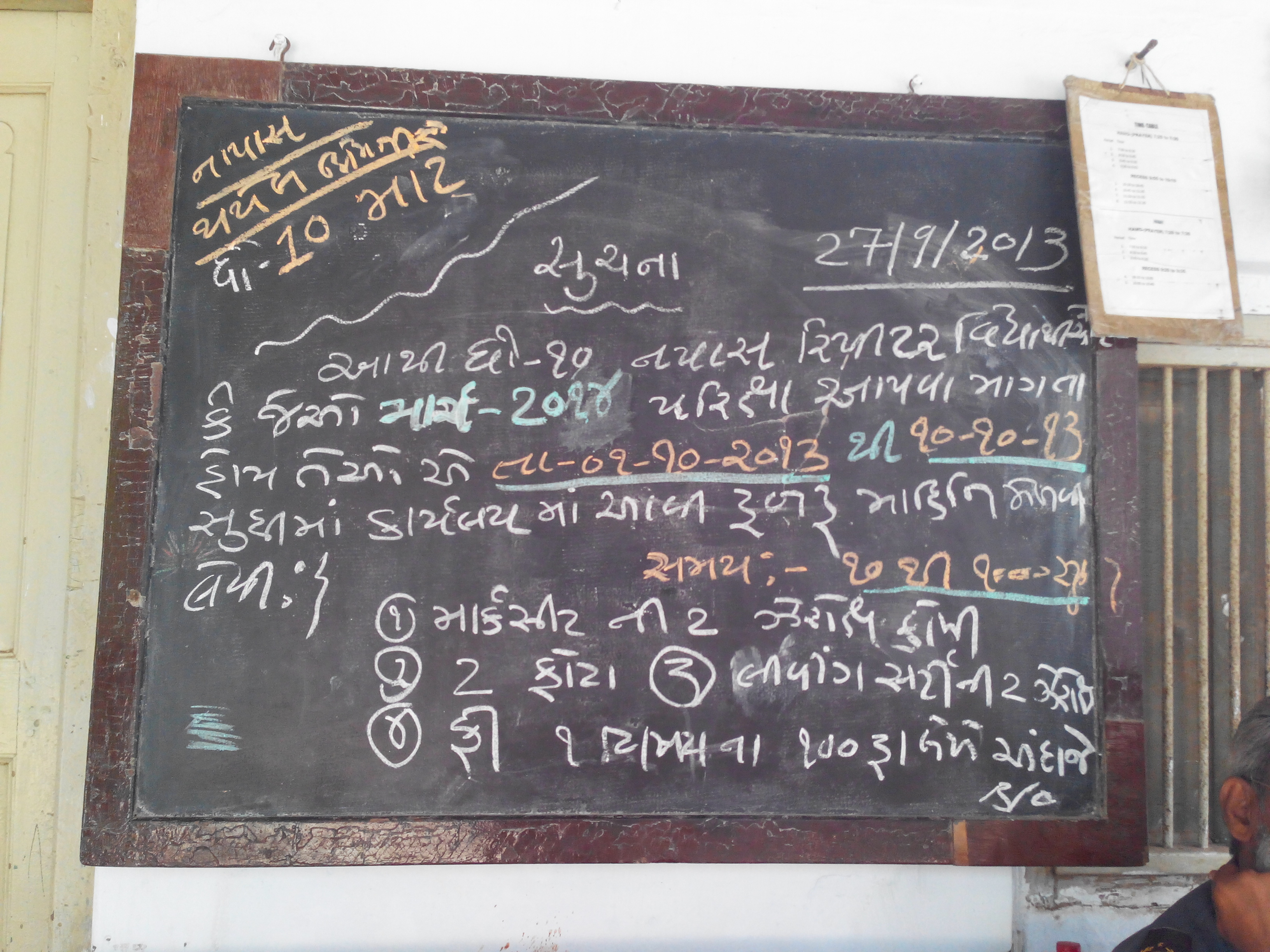 Ahmedabad School, Notice Board Gujarati lettersગુજરાતી: અમદાવાદ શાળા, નોટીસ બોર્ડ ગુજરાતી અક્ષરો